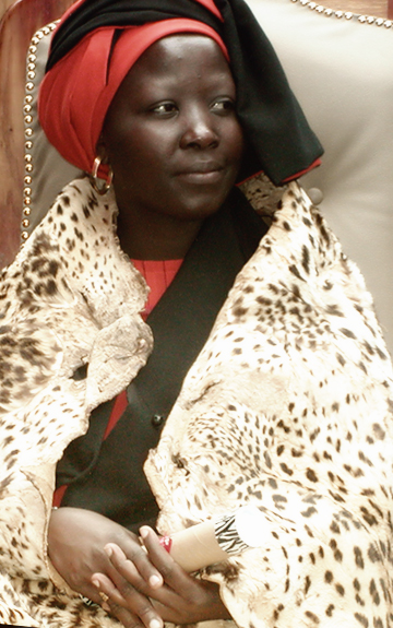 Taken during her Coronation in April 2003 @ the KheThakong royal court in Limpopo